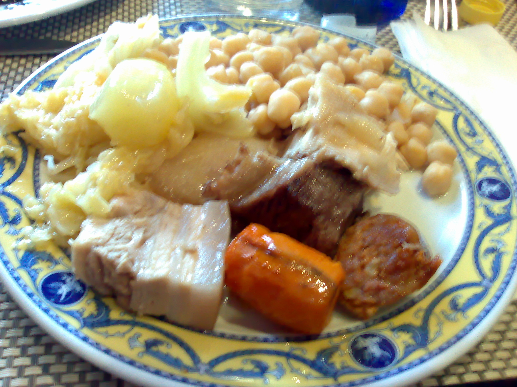 Cocido madrileño, a spanish dish.